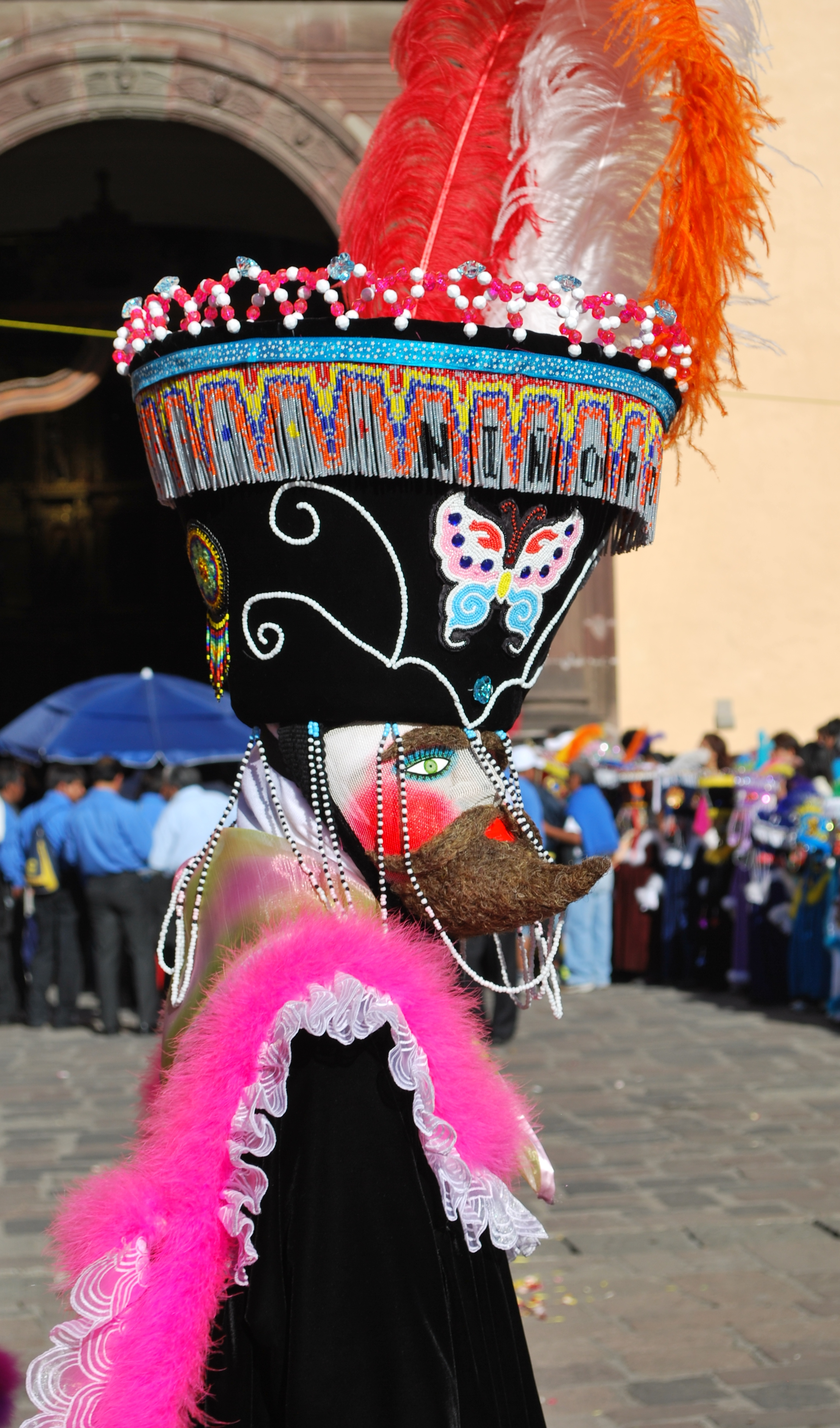 Chinelo in the atrium of San Bernadino after the procession of the Niñopa in Xochimilco